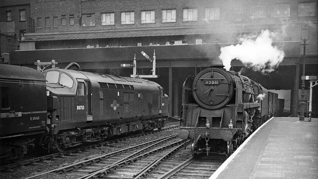 Nottingham Victoria Station, with Down freight and Up express, View southward at the south end, to Parliament Street Bridge and Tunnel. A Down Class E freight (a Woodford Halse - Annesley 'Runner') pounds out on the Down Through, headed by BR Standard 9F 2-10-0 No. 92011, while on the Up line new English-Electric Type 3 Co-Co Diesel No. D6753 leaves on the 10.08 York to Bournemouth express.